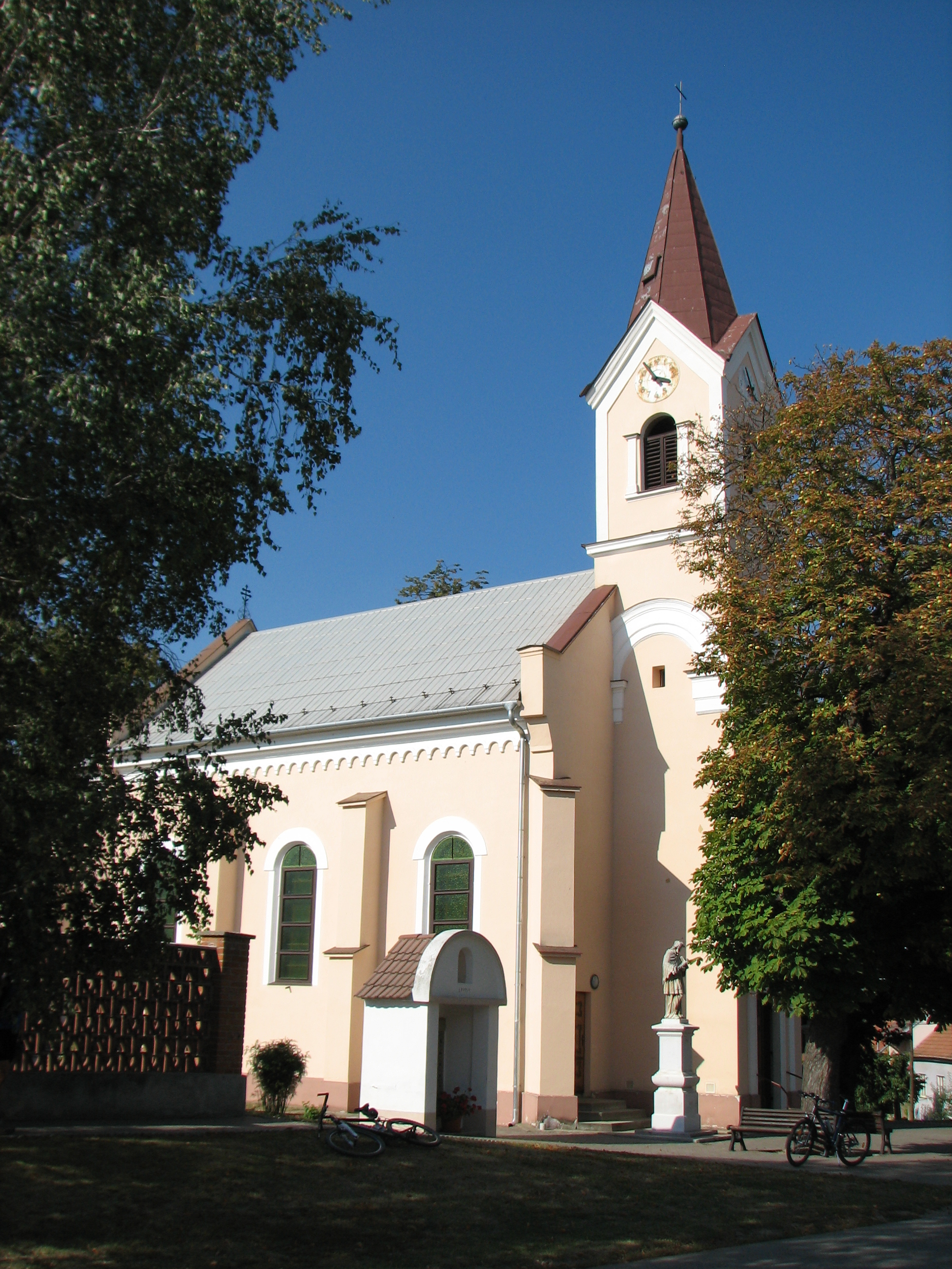 St Florian church in Skoronice, Hodonín District, Czech Republic